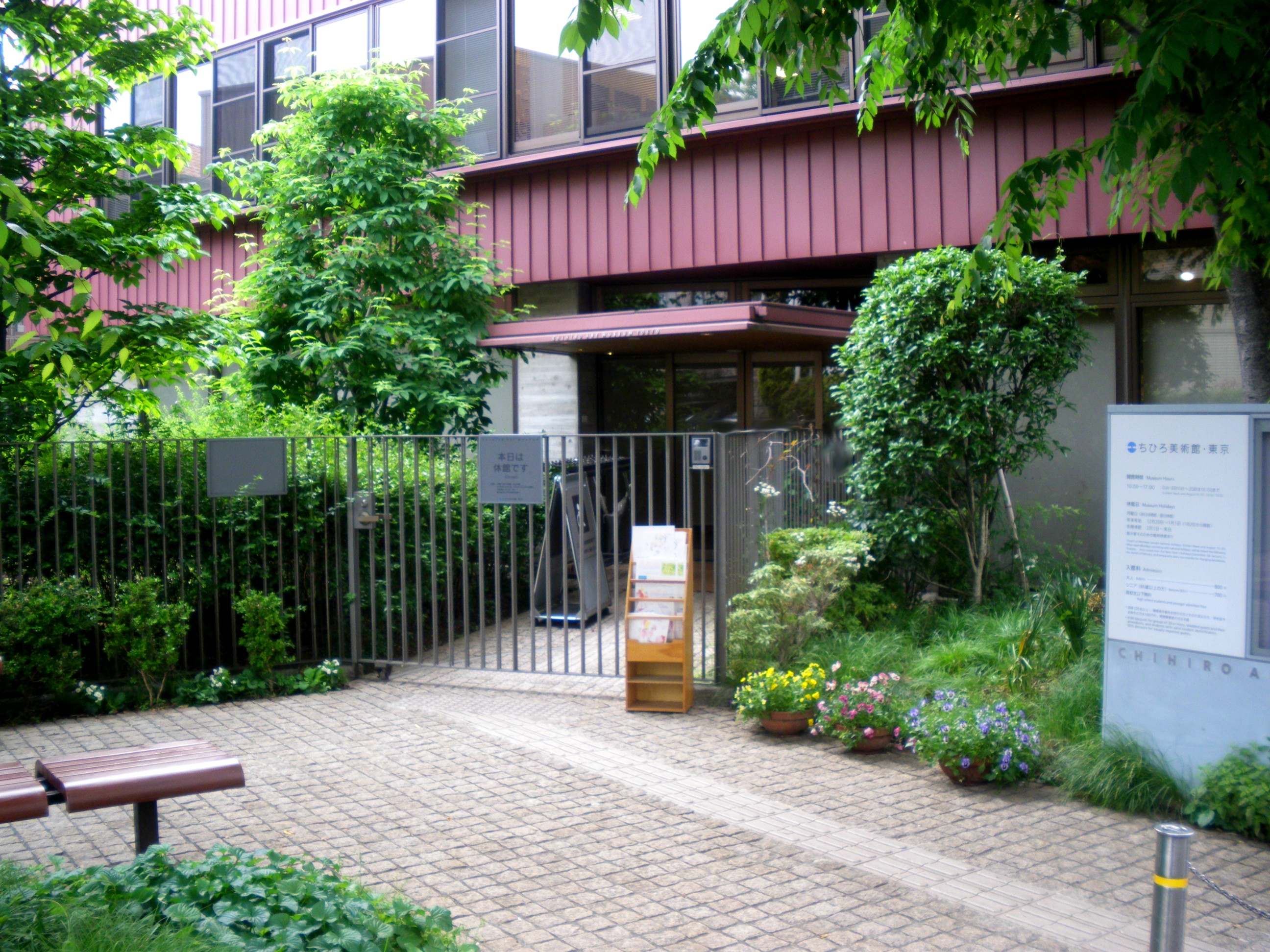 Chihiro Museum entrance (Nerima,Tokyo)